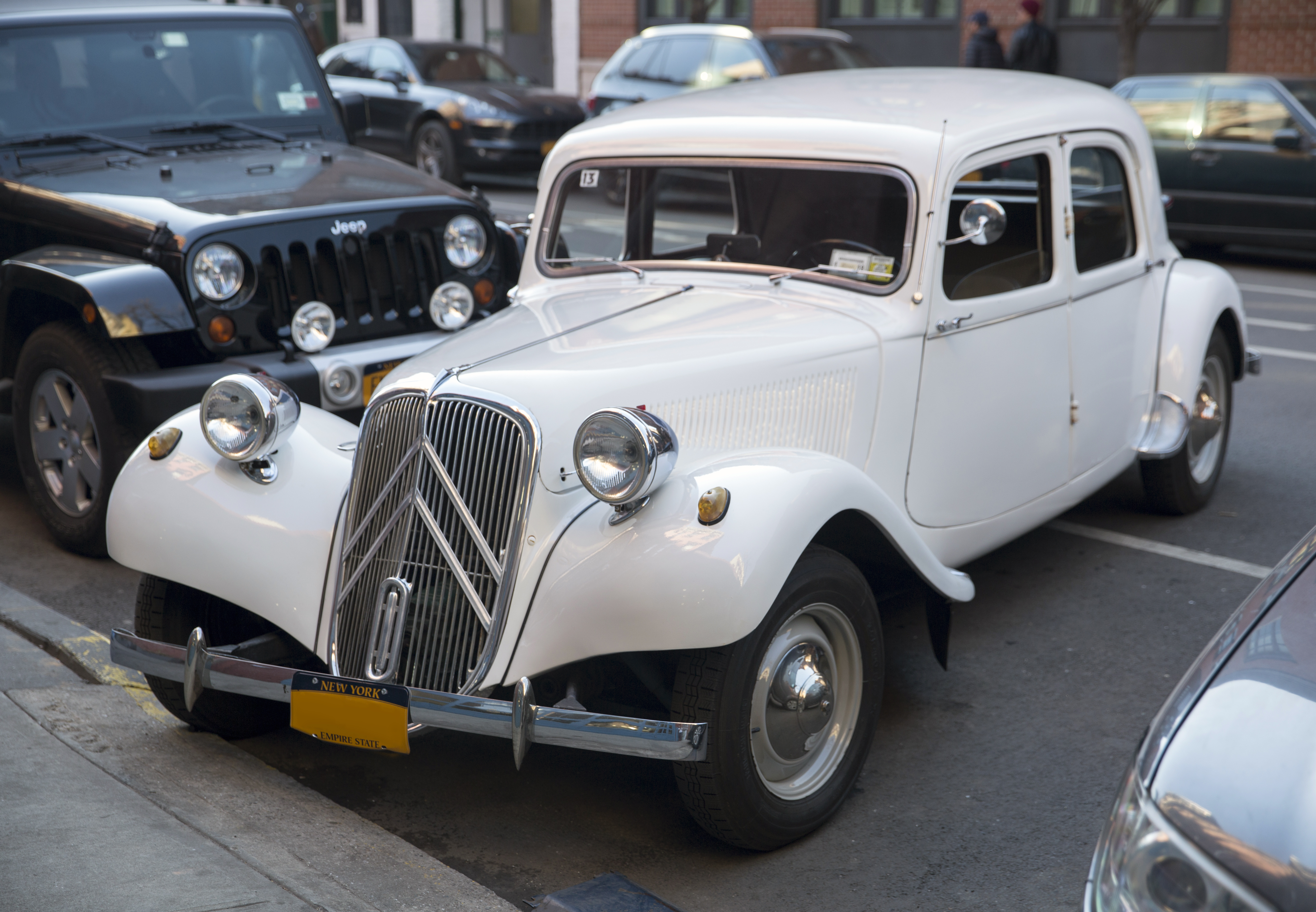 A mid-1955 Citroën Traction 11B Normale in NYC. A bit dinged up at the rear, but still awesome.